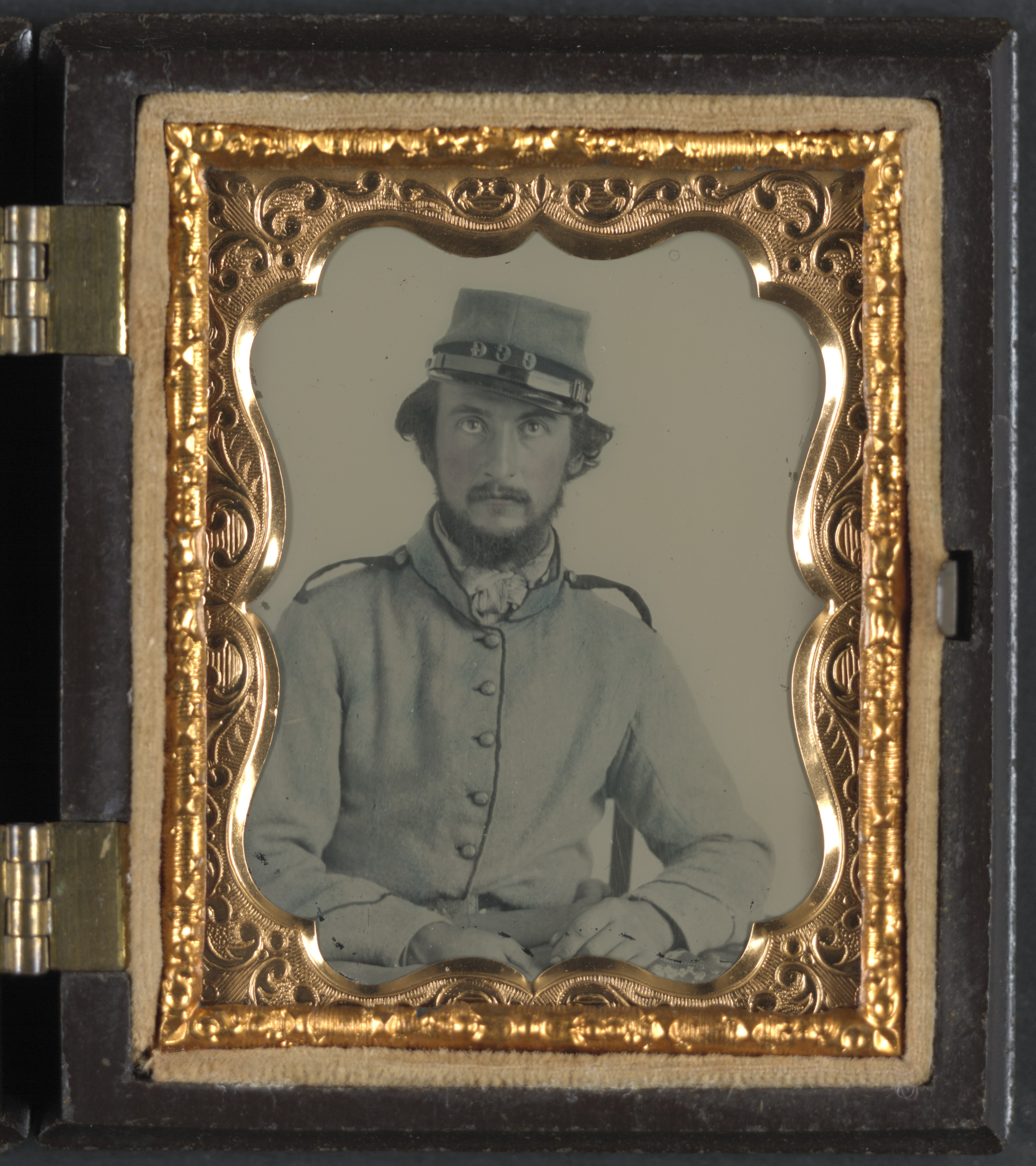 Title: Unidentified soldier in Confederate uniform and Crescent City Guards of New Orleans kepi Abstract/medium: 1 photograph : ninth-plate ambrotype, hand-colored ; 7.8 x 6.8 cm (case)